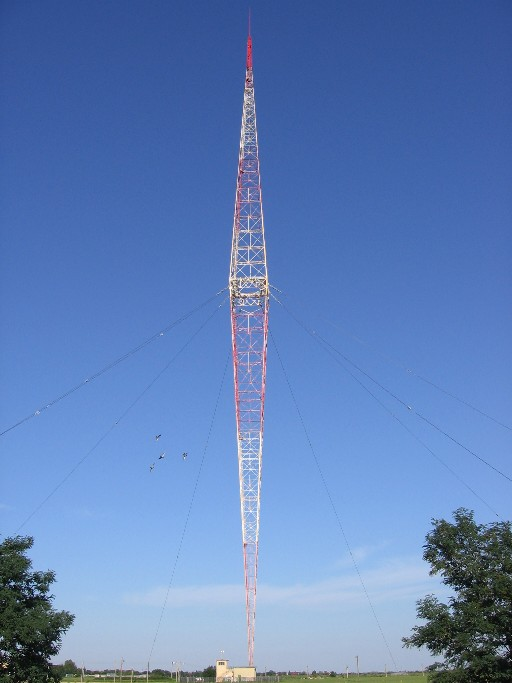 Lakihegy Tower, a 314 meters (1,030 ft) radio mast at Szigetszentmiklós-Lakihegy in Hungary built in 1933. It is a type called a diamond cantilever or Blaw-Knox tower. It transmitted as the radio station Budapest 1 until 1977.